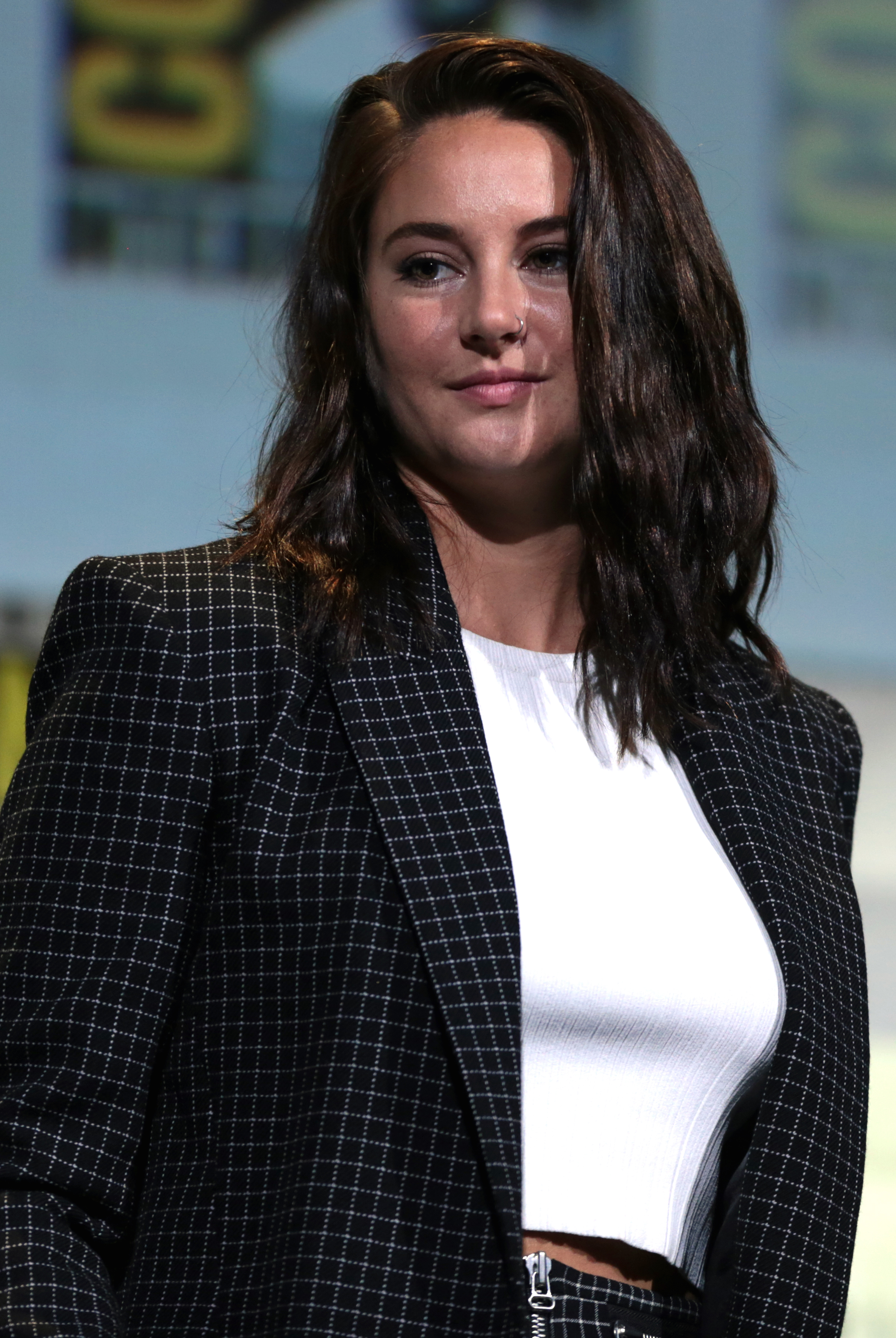 Shailene Woodley speaking at the 2016 San Diego Comic-Con International in San Diego, California.